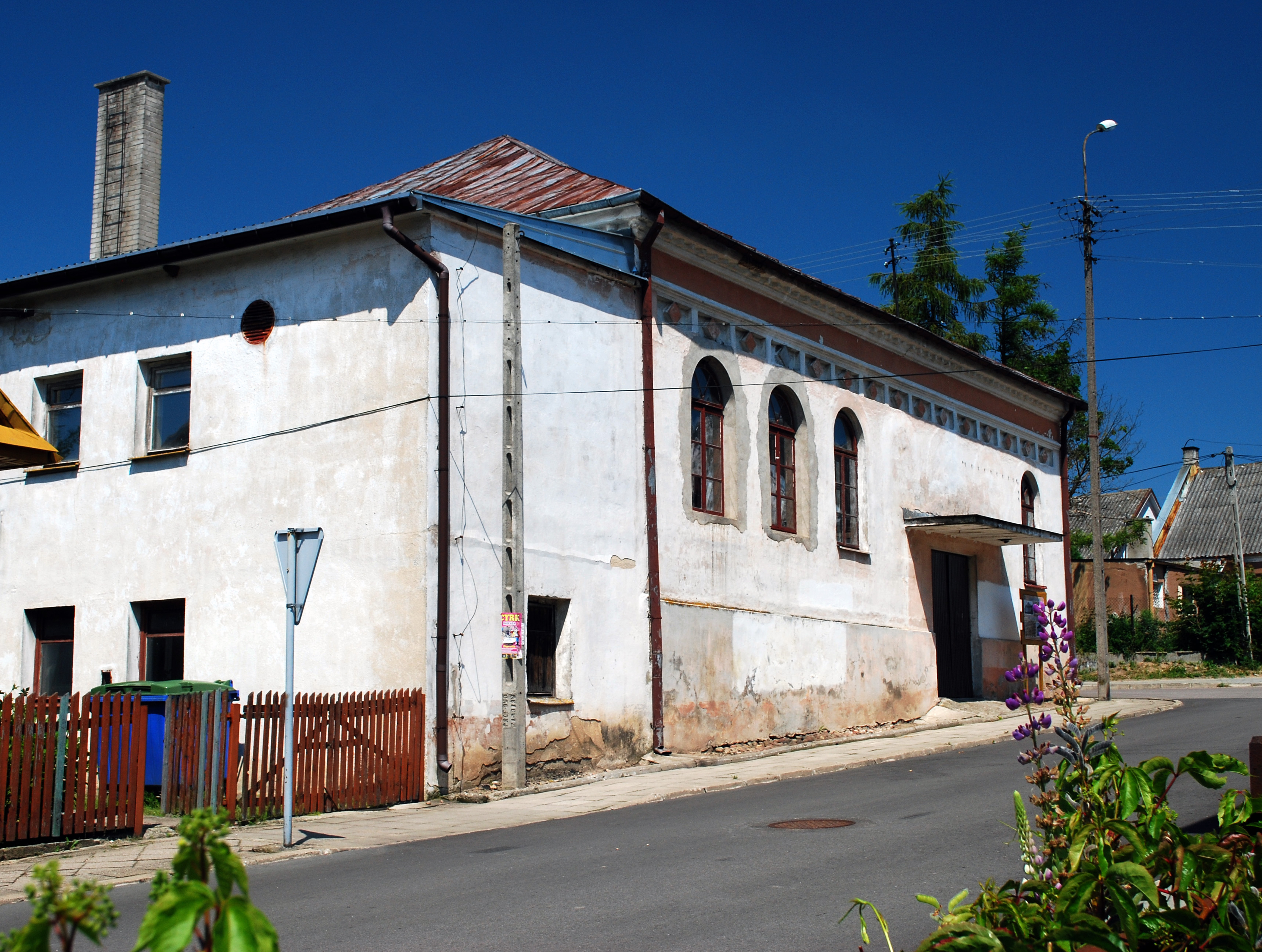 This photo from Podlaskie Voievodeship was taken during Polish Wikiexpedition 2009 set up by Wikimedia Polska Association. The making of this document was supported by Wikimedia Polska. Synagoga Kaukaska w Krynkach.